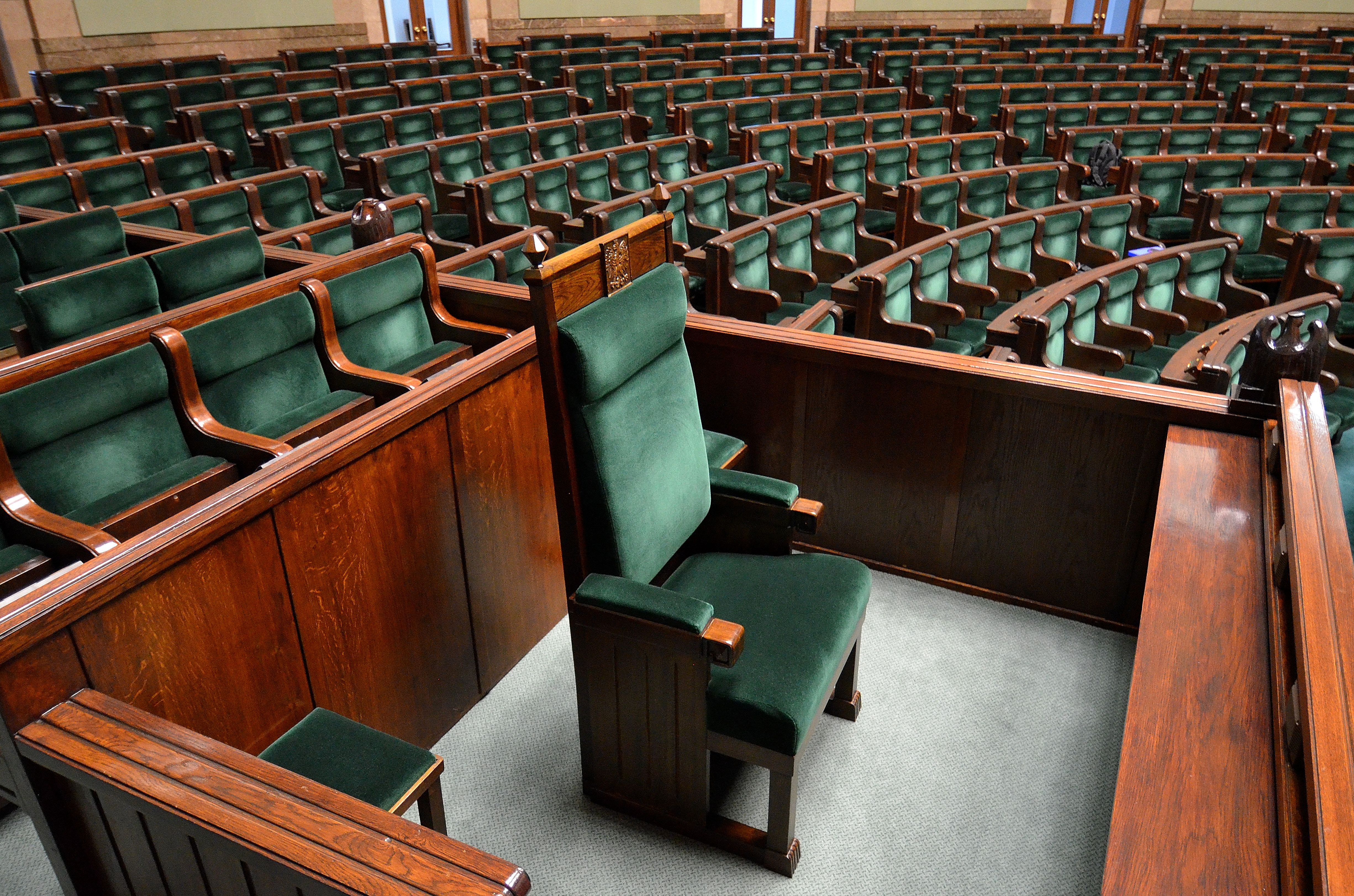 President's seat in the Sejm Plenary Hall